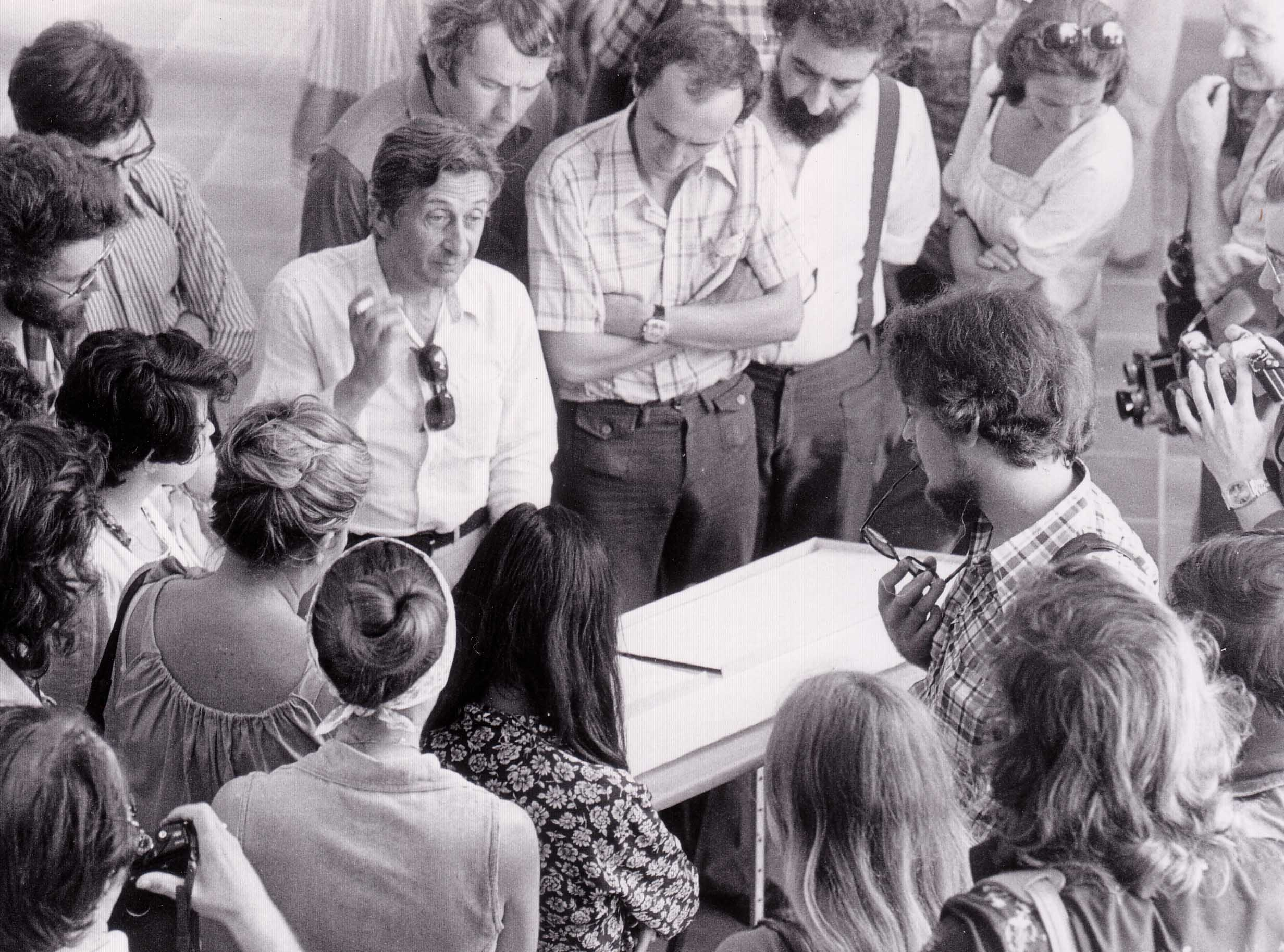 French photographer Jean-Pierre Sudre during a talk in Southern France, 1975. The photograph was taken during '6èmes Rencontres Internationales de la Photographie', Arles, 1975, at Sudre's house. Second person left from him (right, from viewer) is french photographer Georges Tourdjman. Nikon 85mm lens.